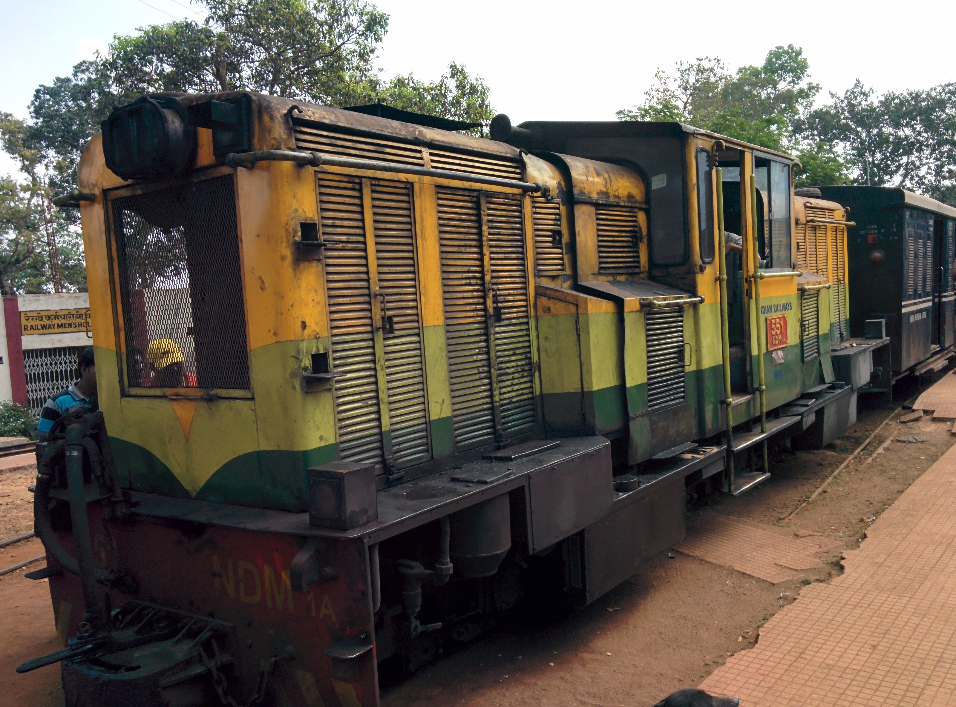 Locomotive of Matheran Hill Railway